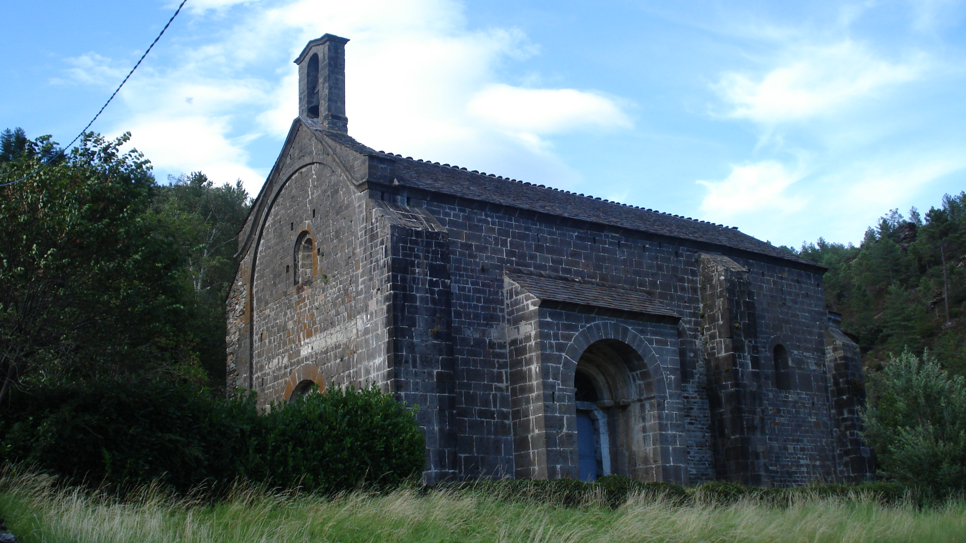 Notre Dame de Valfrancesque in Boissonade Moissac-Vallée Française en Lozère France - Protestant Church